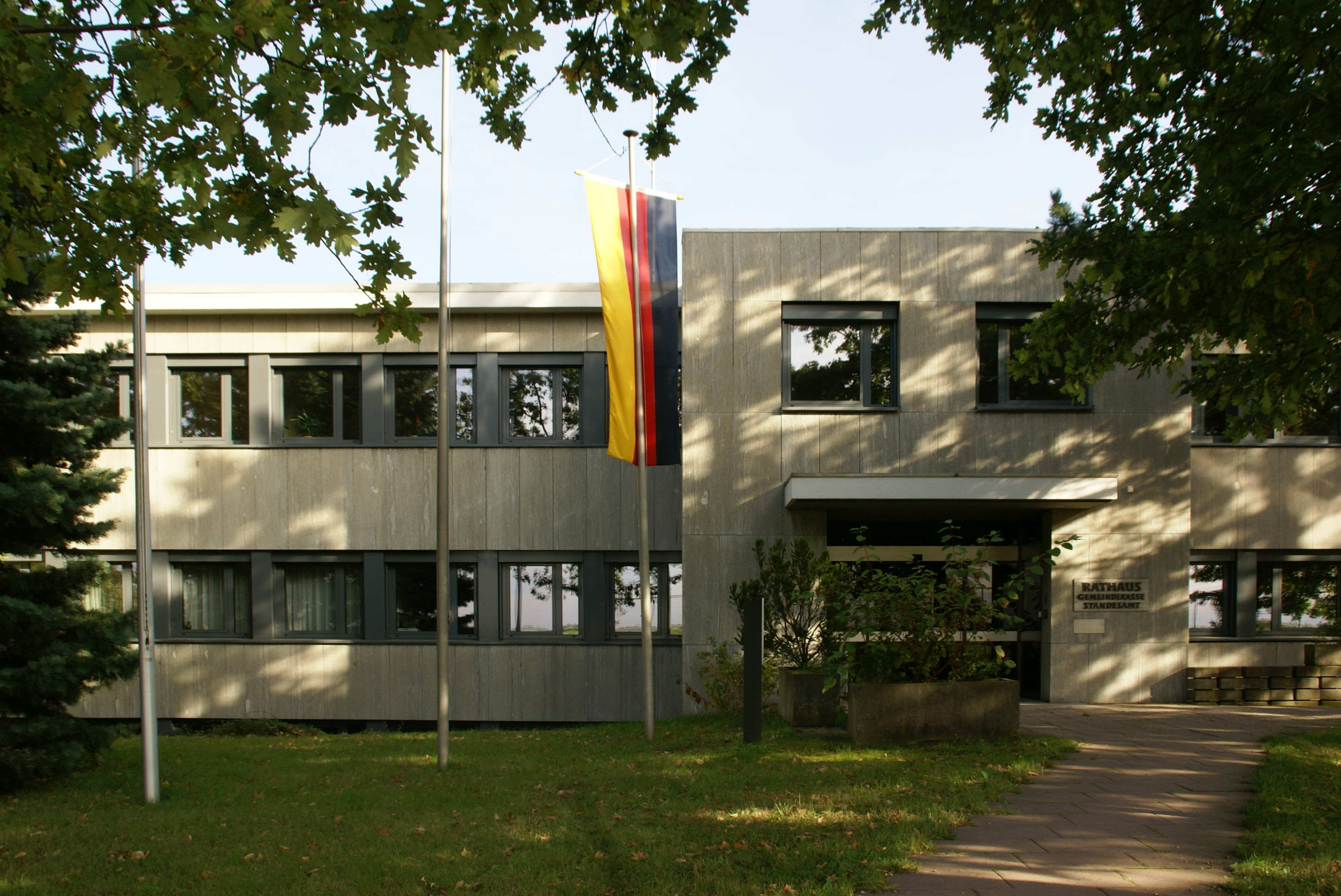 Front side and main entrance of the town hall of the municipality Swisttal in Swisttal, Rathausstraße 115